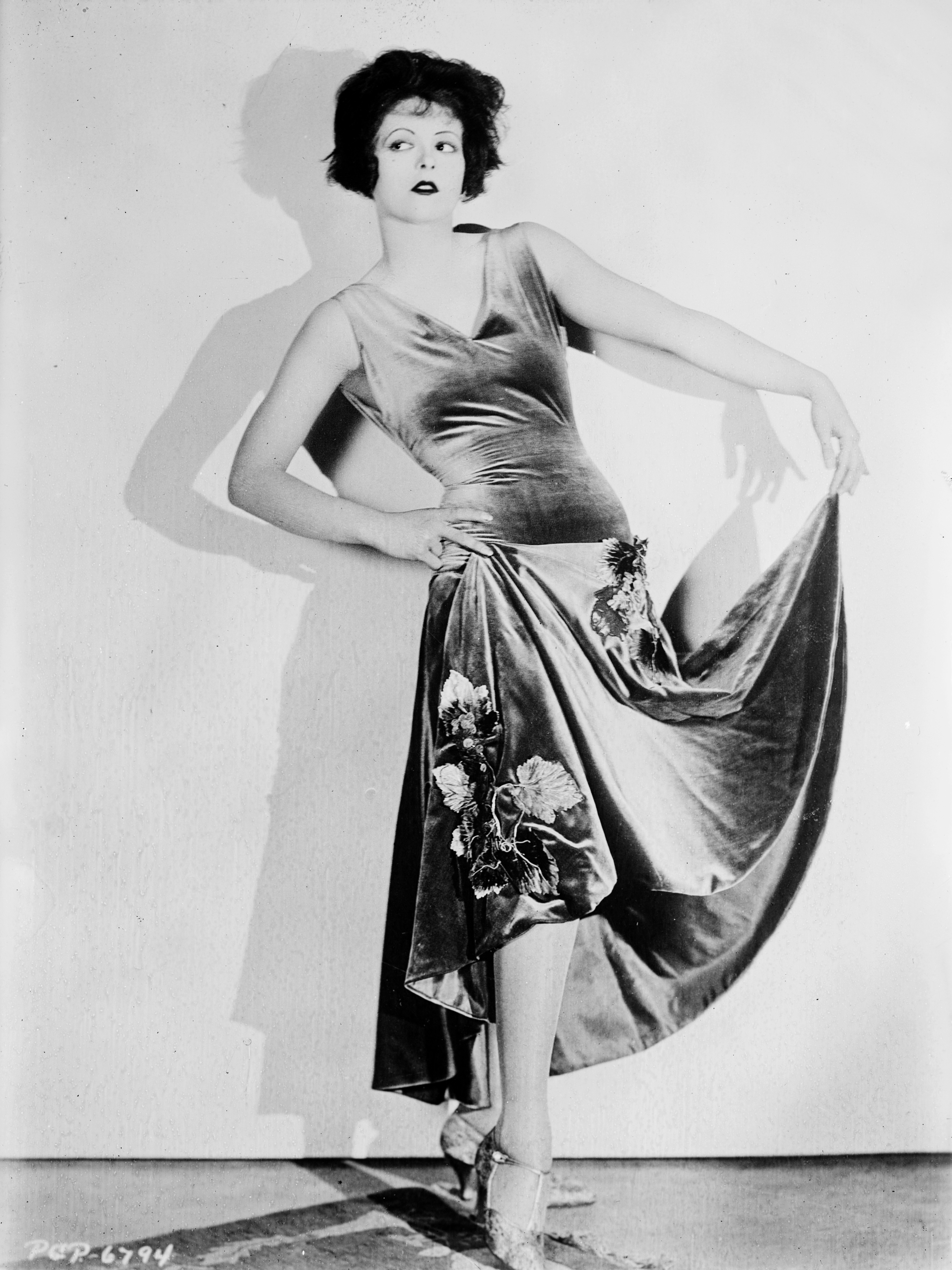 Broadway and Hollywood actress Clara Bow. From her biography and a comparison of other photographs, this was likely taken around 1924.